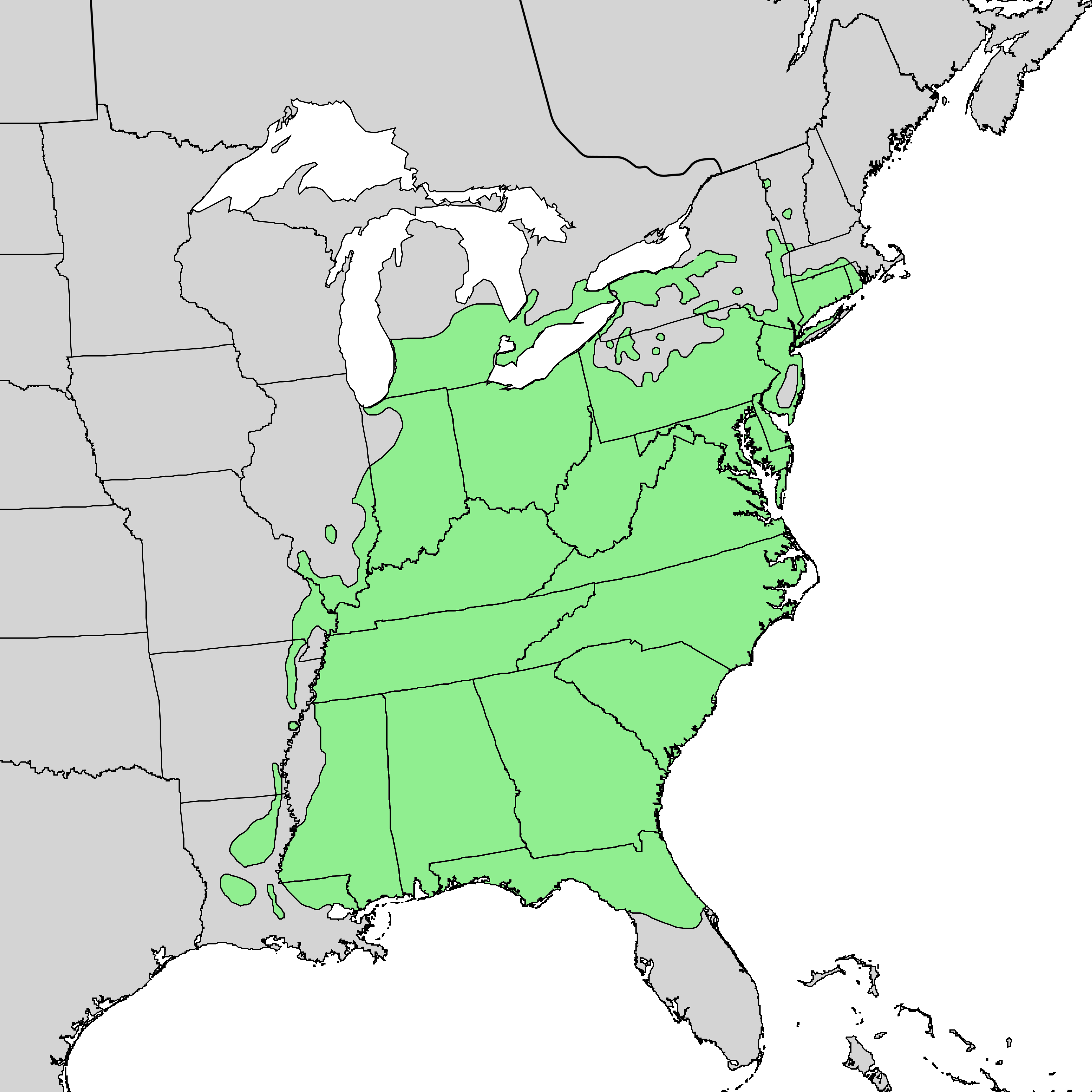 Distribution map of Liriodendron tulipifera — Tulip tree.